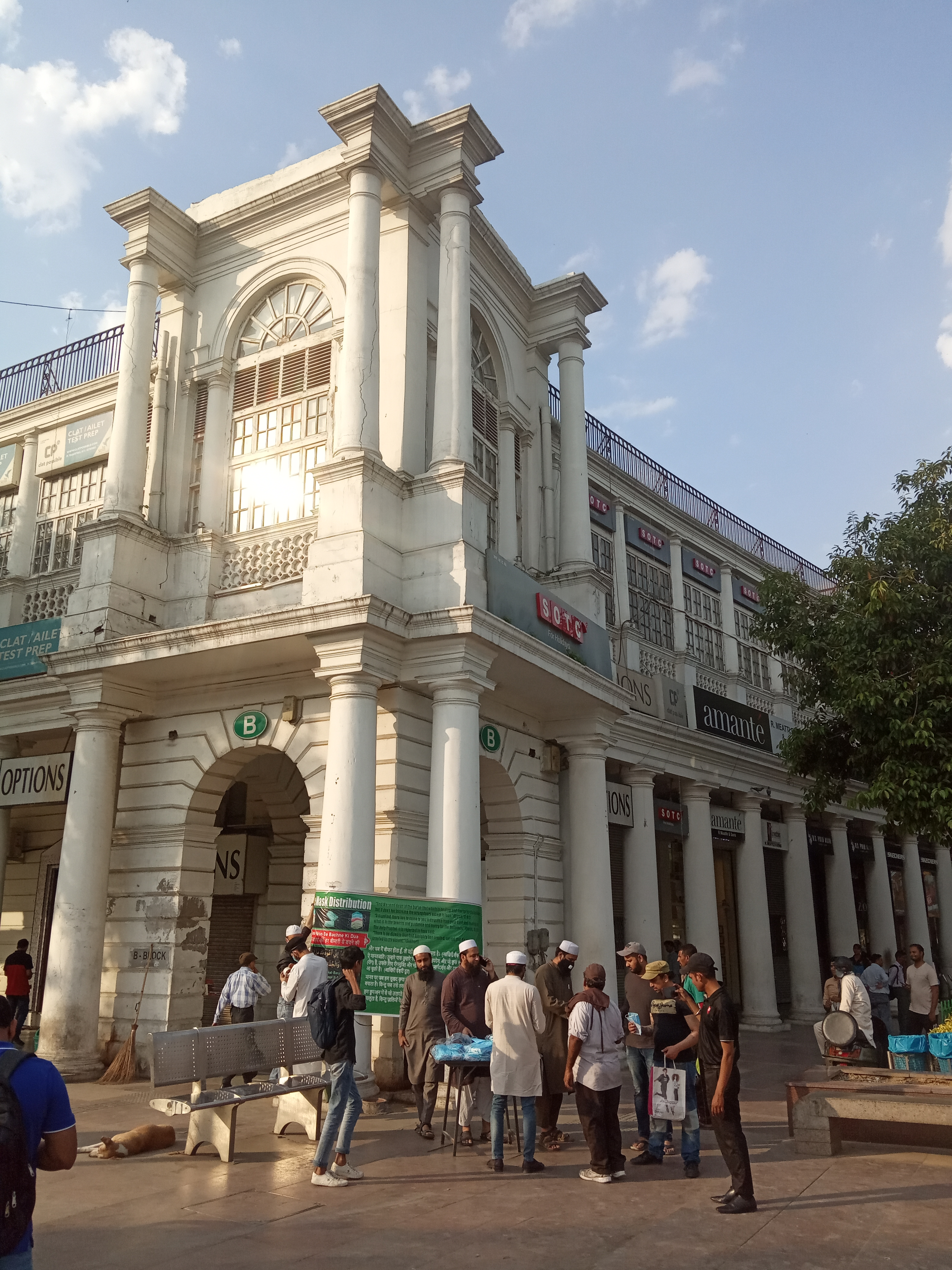 On 21 April 2020 before lockdown mask distribution by the people for the people at Connaught place, B Block New Delhi